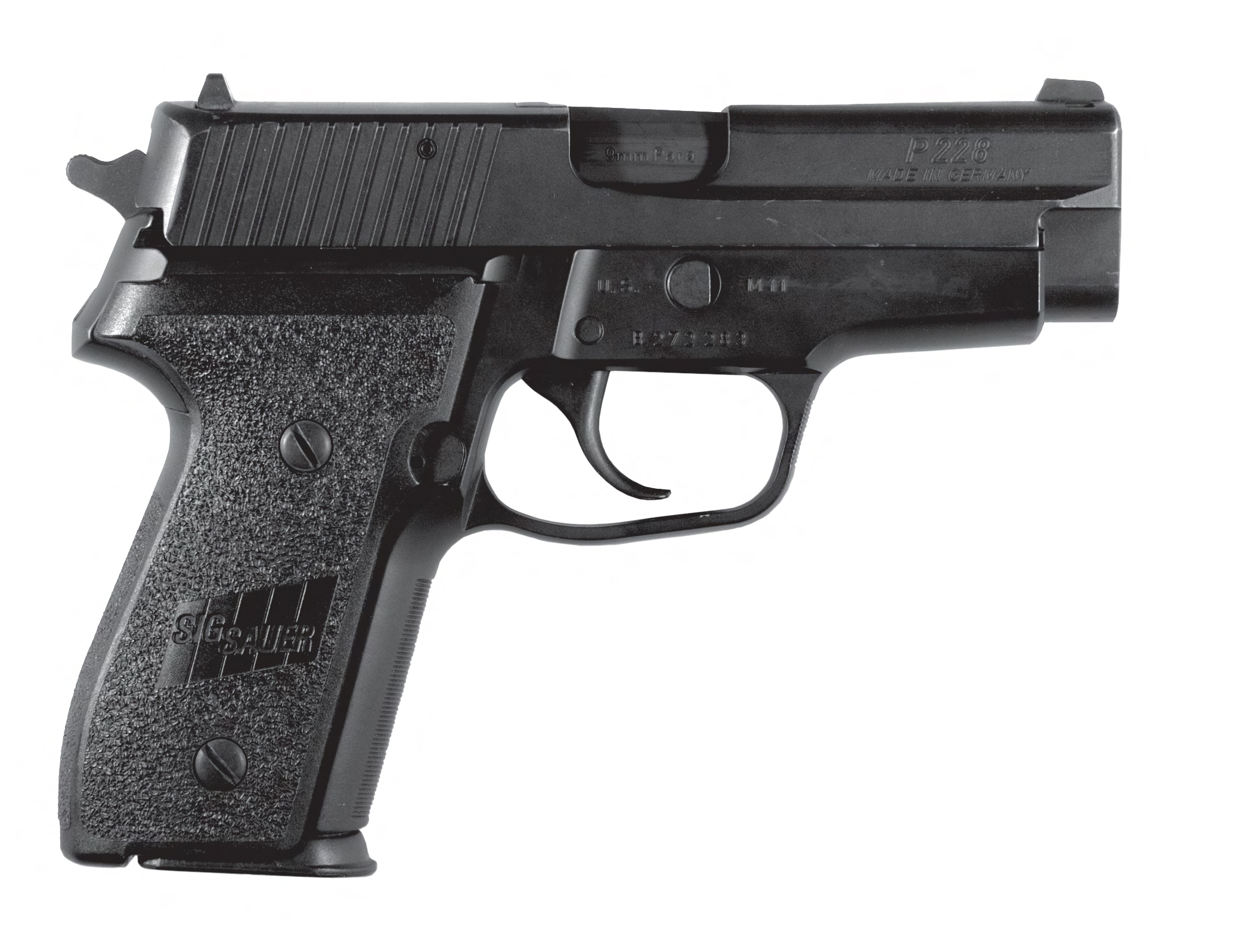 M11 Pistol Primary function: Personal defense. Length: 7.08 in. Weight: 2.0 lbs. (fully-loaded). Caliber: 9 mm NATO. Maximum effective range: 50 meters. Also known as SIG P228